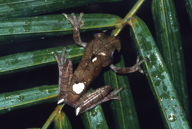 Hypsiboas geographicus